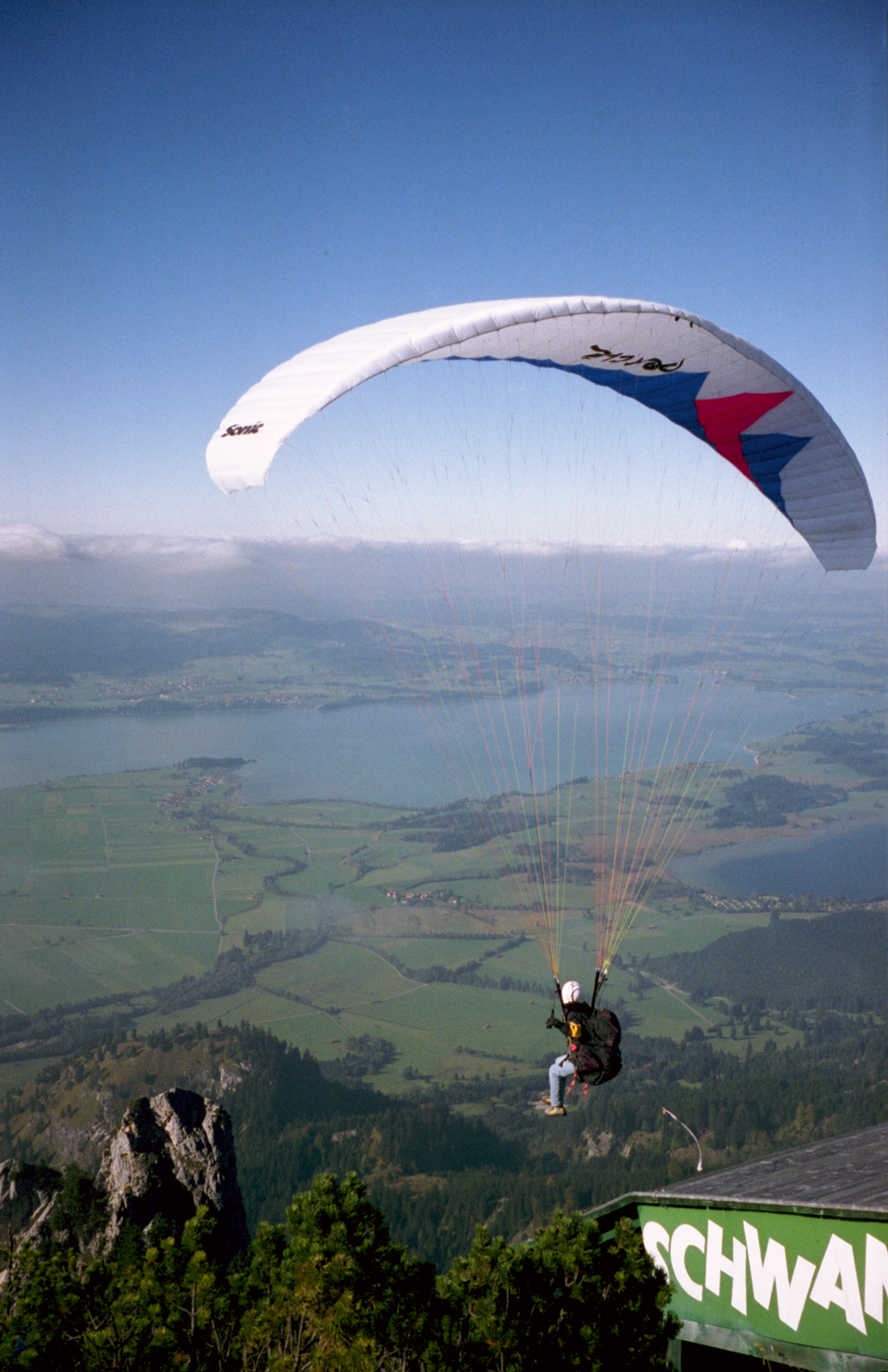 Paraglider, Tegelberg (1720 m), Schwangau, Germany.